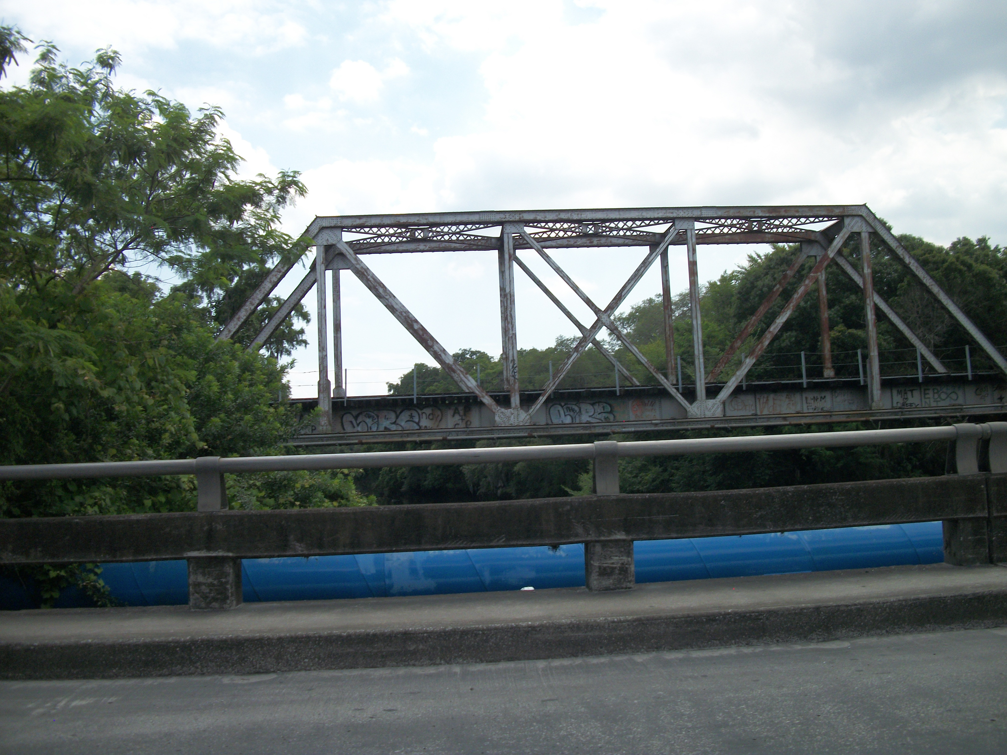 Westbound view of the CSX Clearwater Subdivision bridge over the Hillsborough River in Tampa, Florida. Taken from the Rowlett Park Drive Bridge, which I was only able to do because of a red light at the East Mulberry Drive/North 22nd Street intersection. In case anybody is interested, the bridge over East Mulberry Drive was made in 1928, and has provisions for a southbound track.